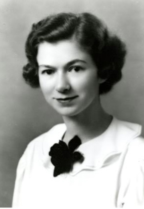 Beverly Cleary in 1938 college yearbook photo.